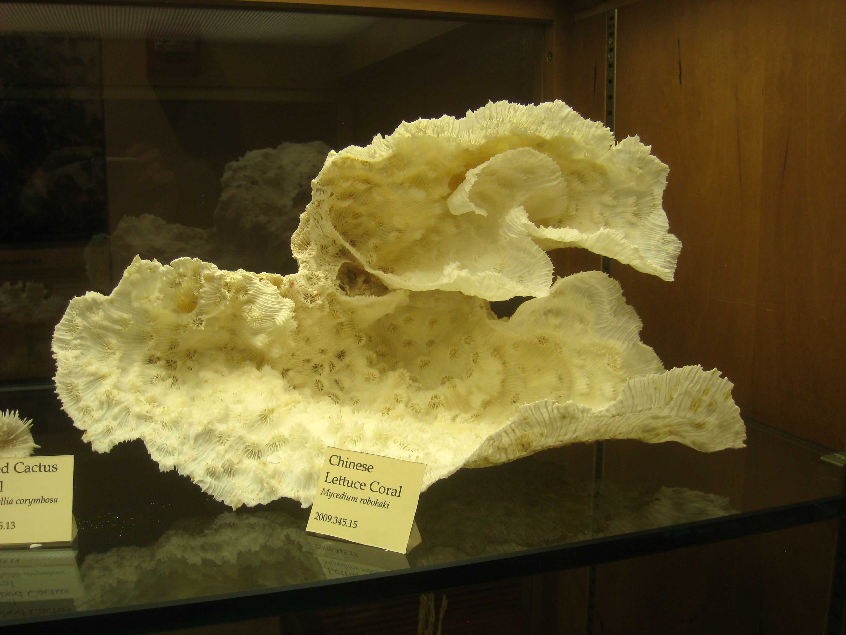 Chinese lettuce coral (Mycedium robokaki) in Museum of Science, Boston, Massachusetts, USA. Note that there was no prohibition against photography in the museum.